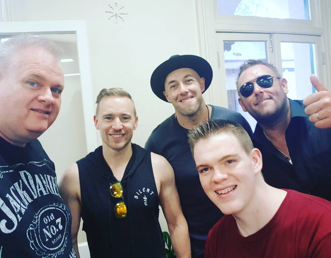 The Wolfe Brothers pose for a photo with radio hosts Big Stu & MJ from Planet Country